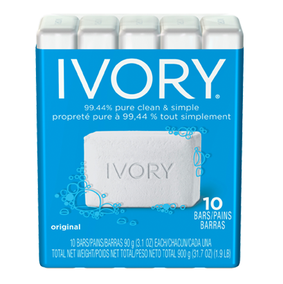 Ivory Soap circa 2010s